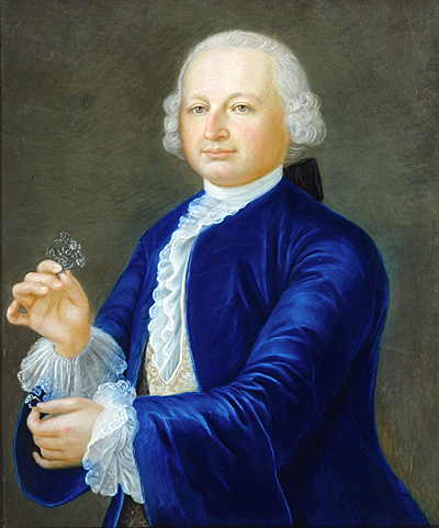 Jeremie Pauzie (1716-1779)